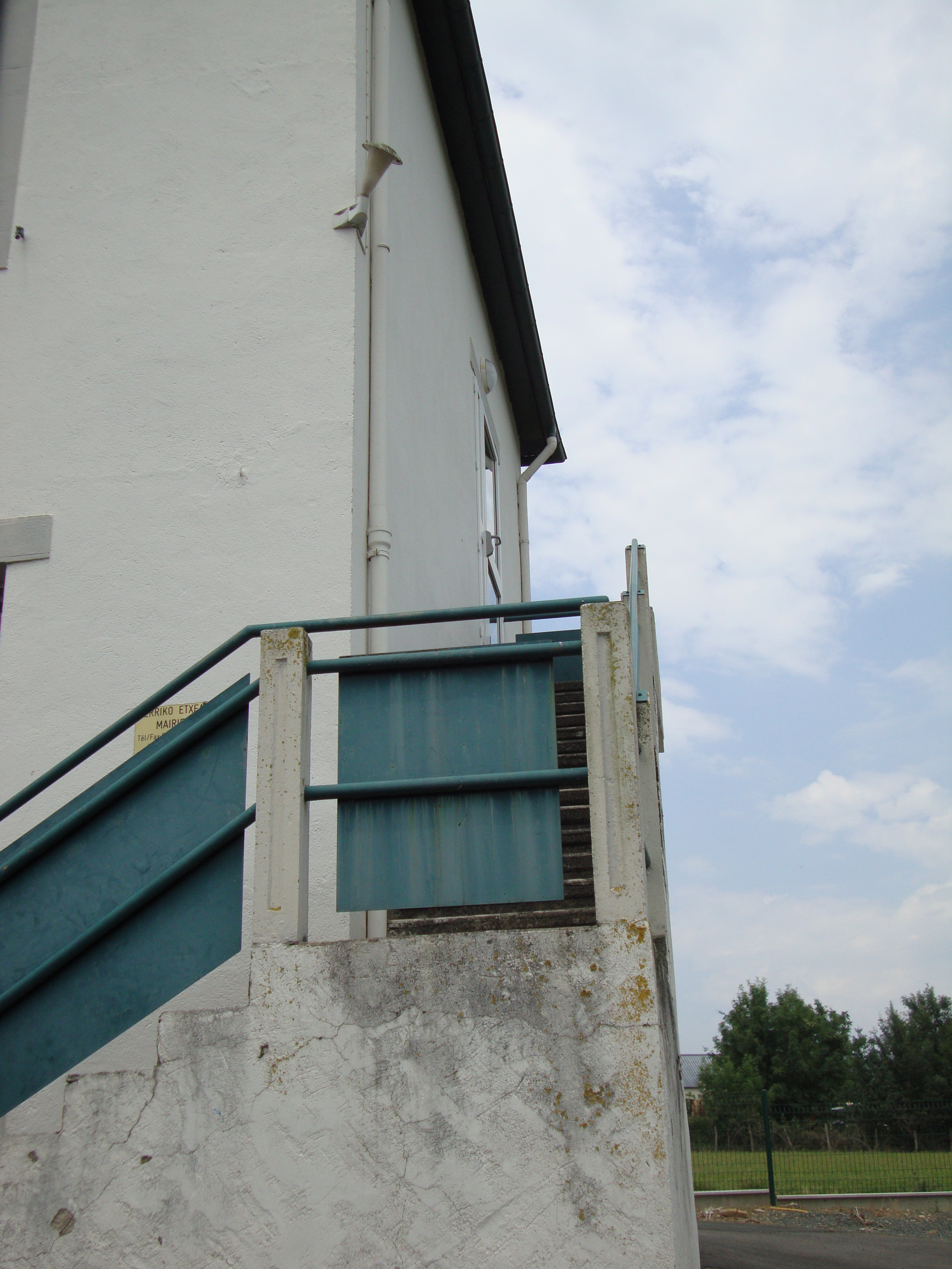 Musculdy (Pyr-Atl, Fr) the town hall upstairs above the school.